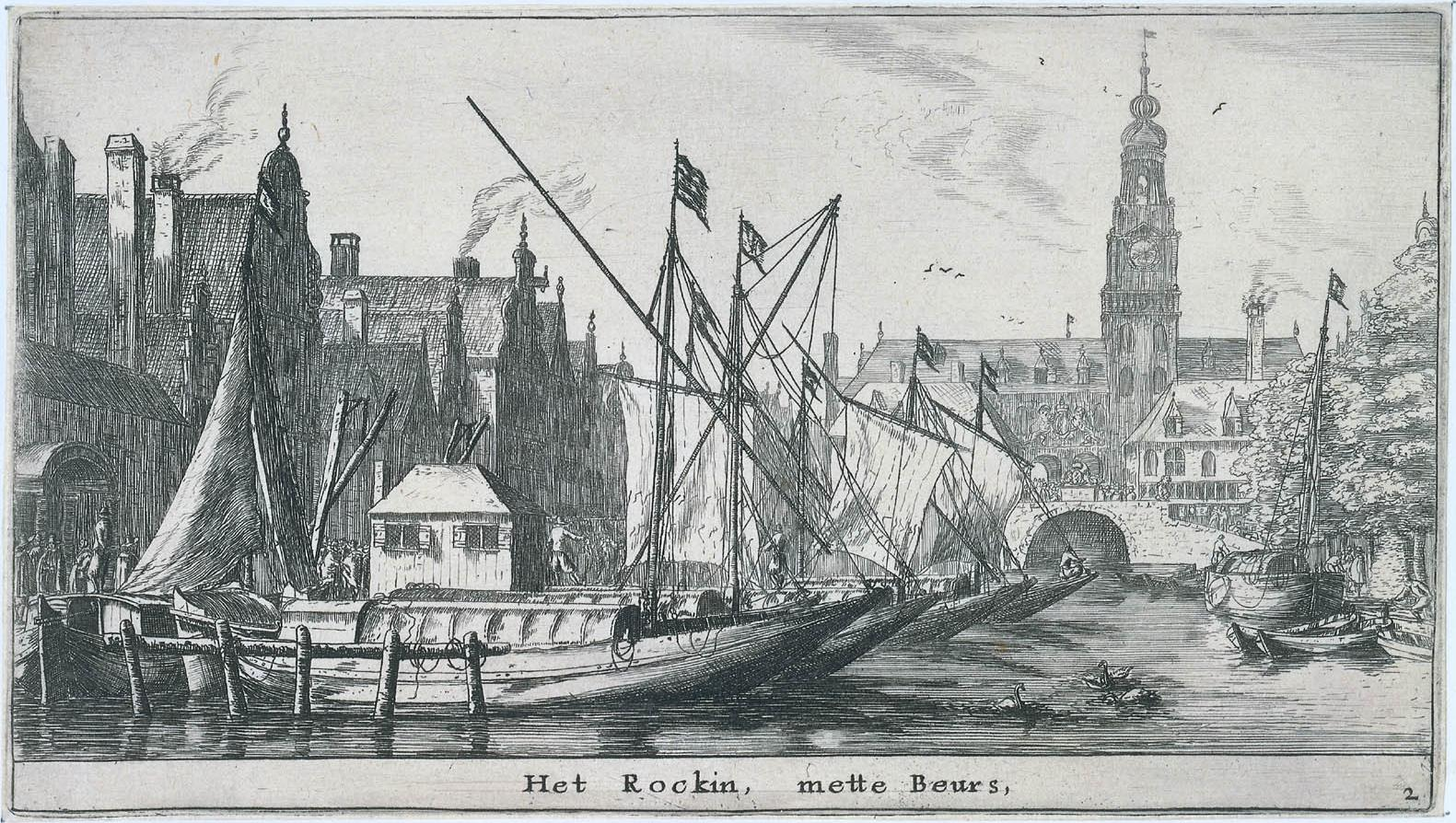 The Rokin and the Beurs.